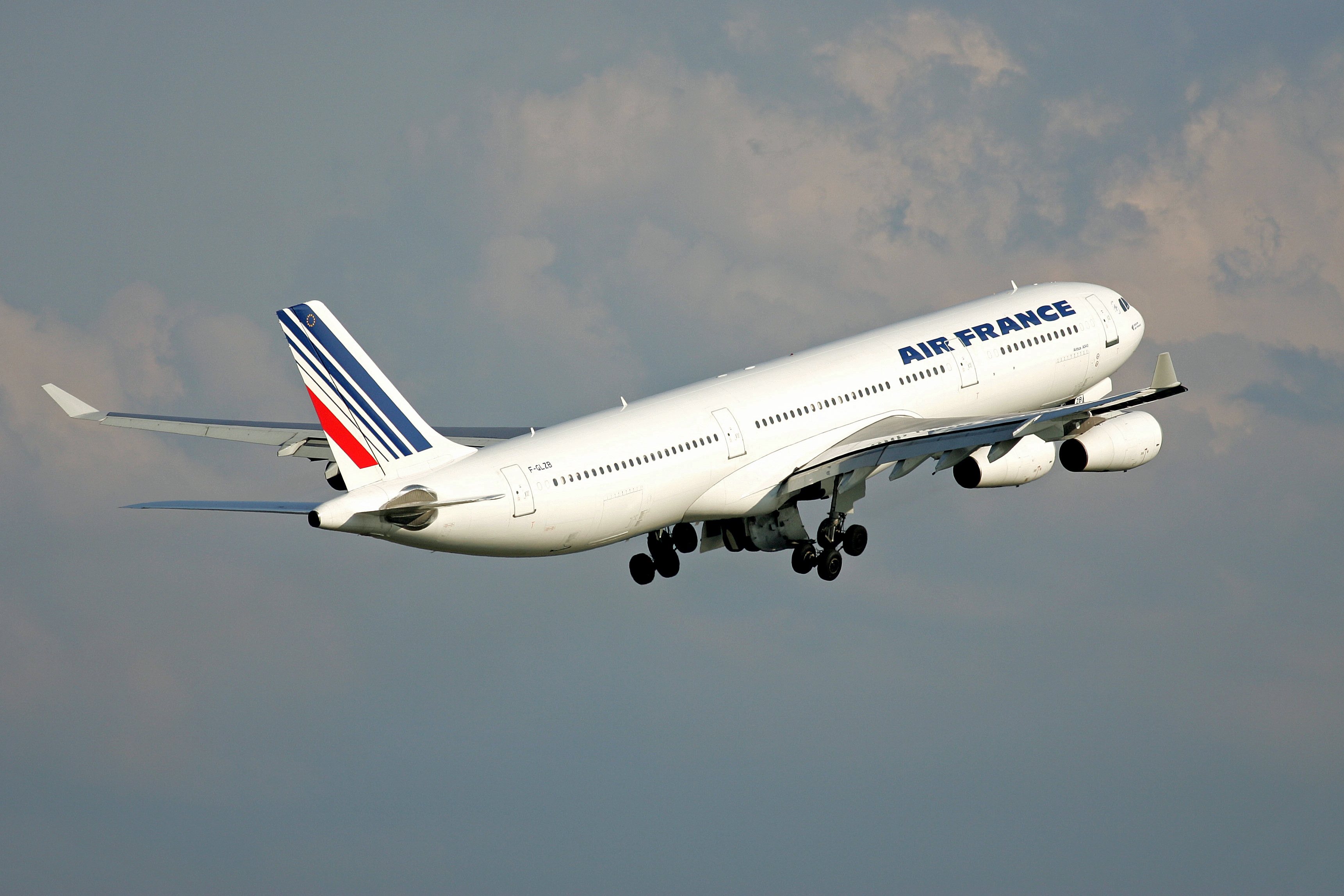 Air France Airbus A340-300 takes off.